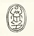 Picture of a scarab bearing the name Merkheperre, believed by Petrie to refers to pharaoh Merkheperre of the 13th Dynasty.